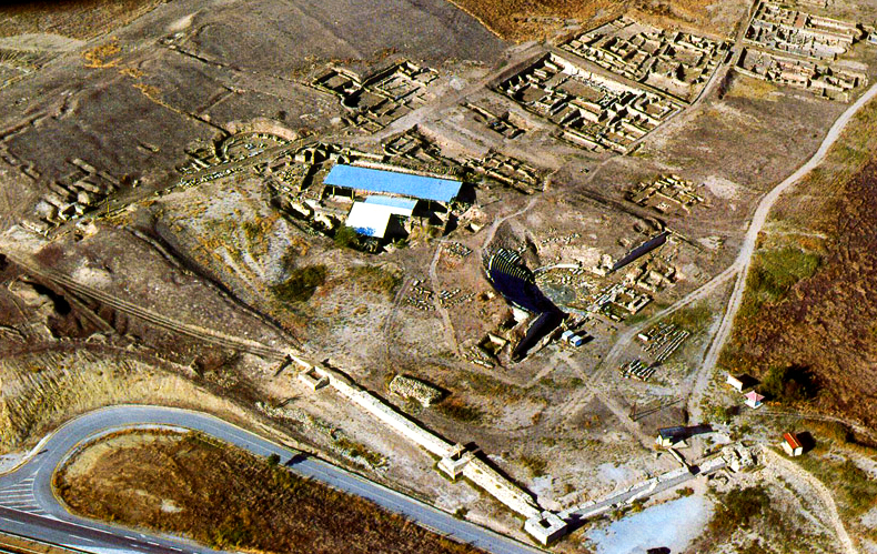 Aerial photograph of Stobi